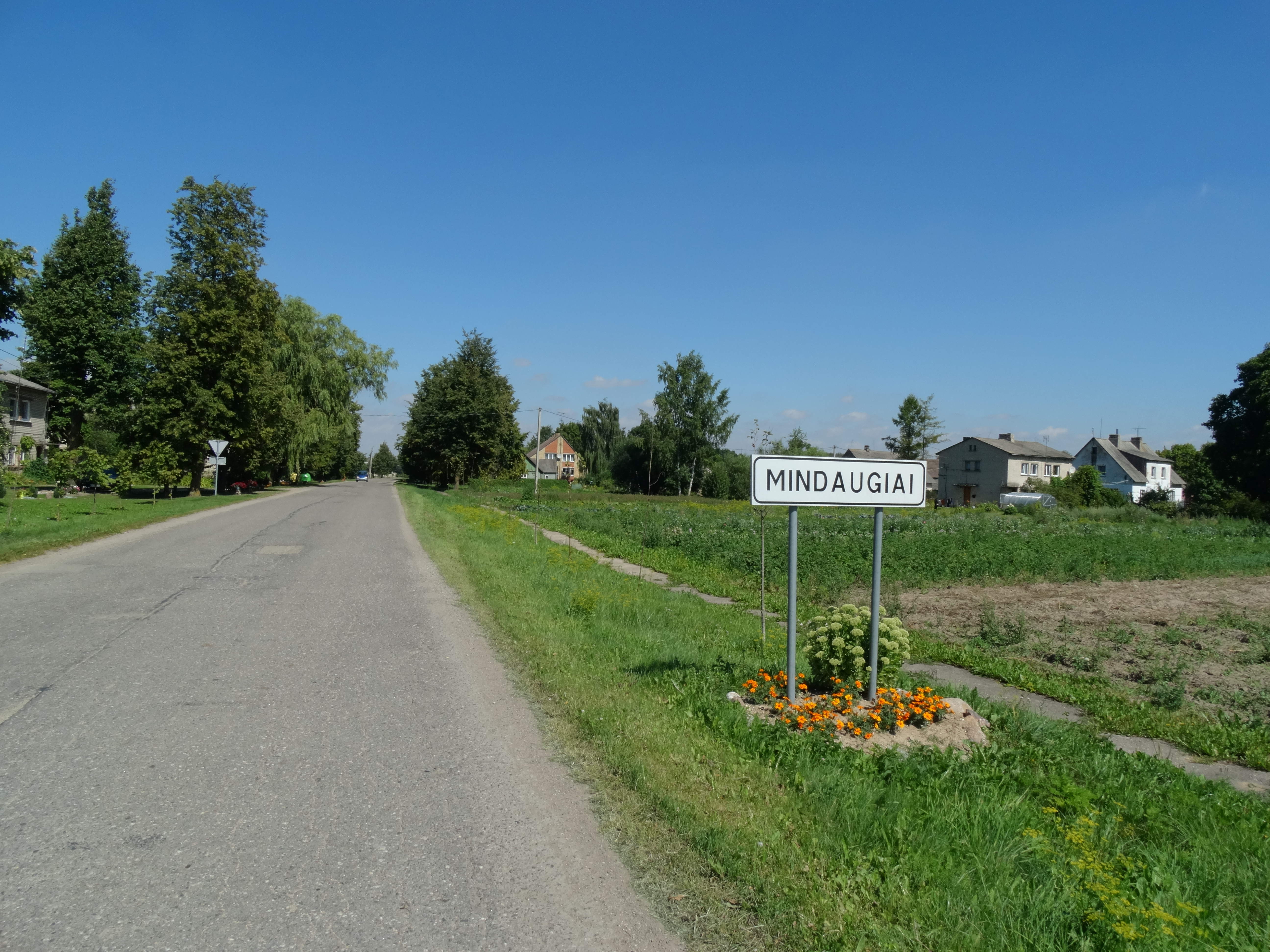 Mindaugiai, Joniškis district, Lithuania